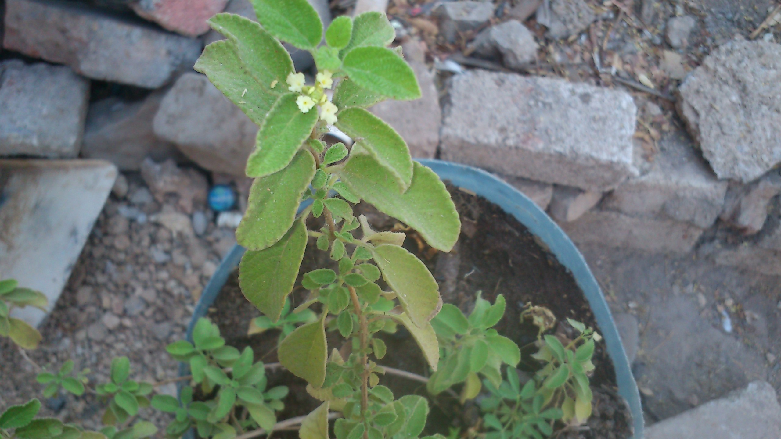 tiene propiedades curativas, ataca los trastornos digestivos.